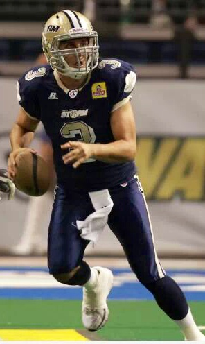 Brian Zbydniewski